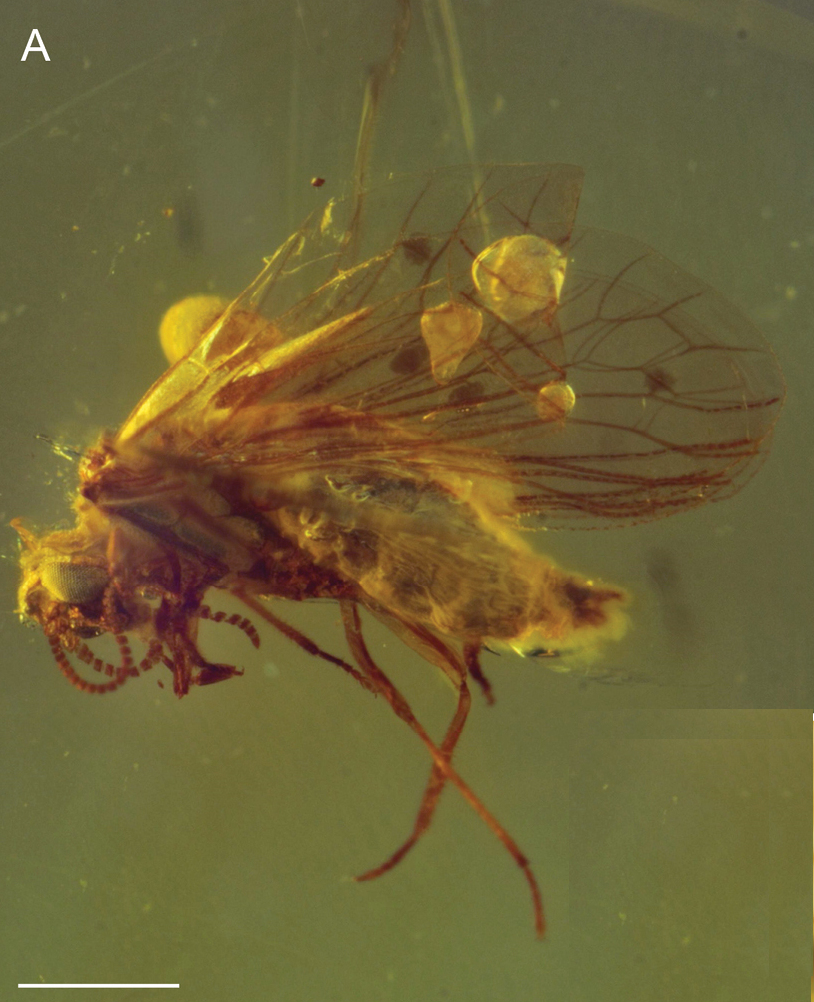 Palaeoconis azari holotype BUB 2914 in Burmese amber. A Habitus lateral view Scale bar: 500µm